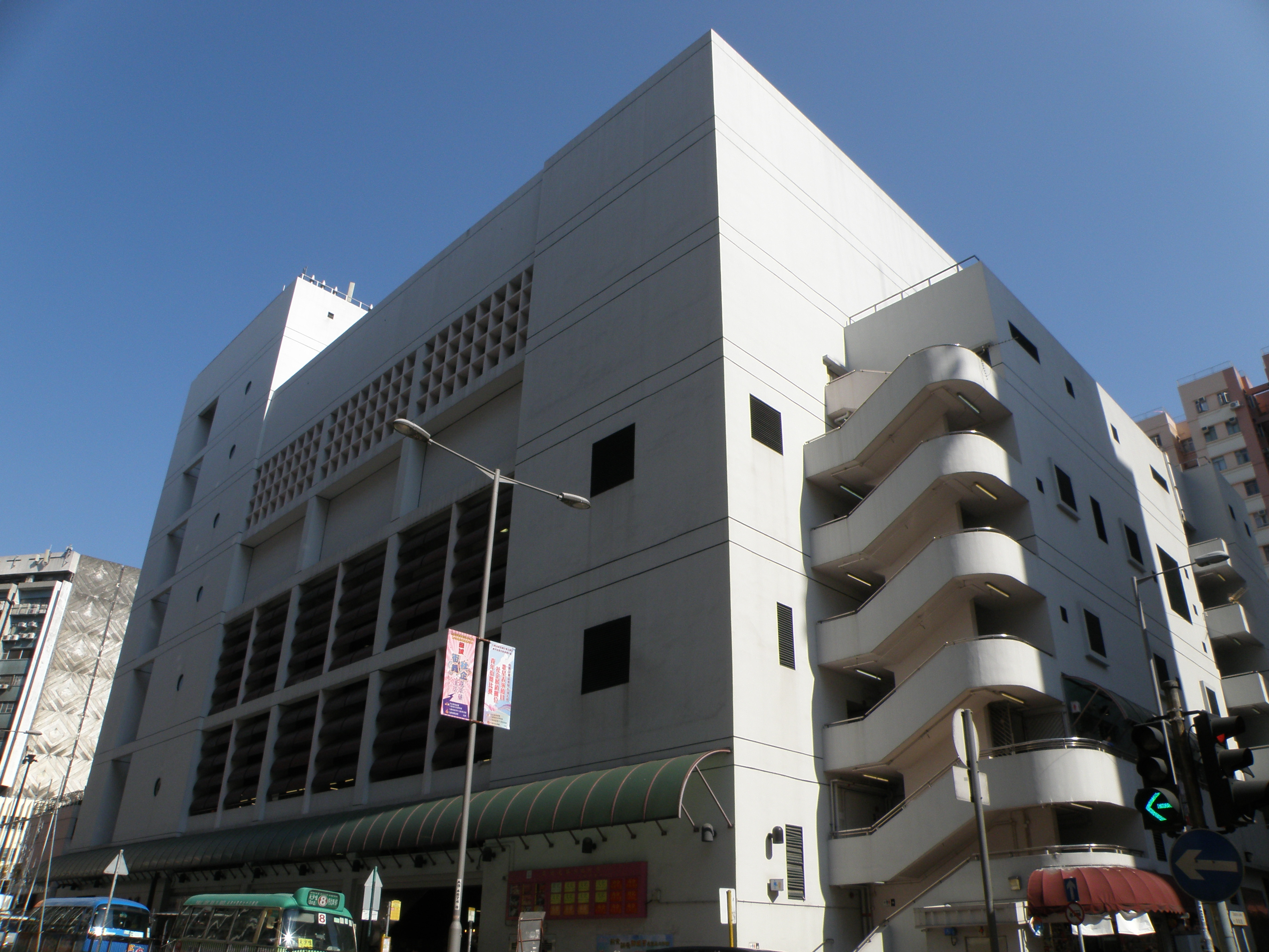 Hung Hom Municipal Services Building in Hung Hom, Hong Kong.